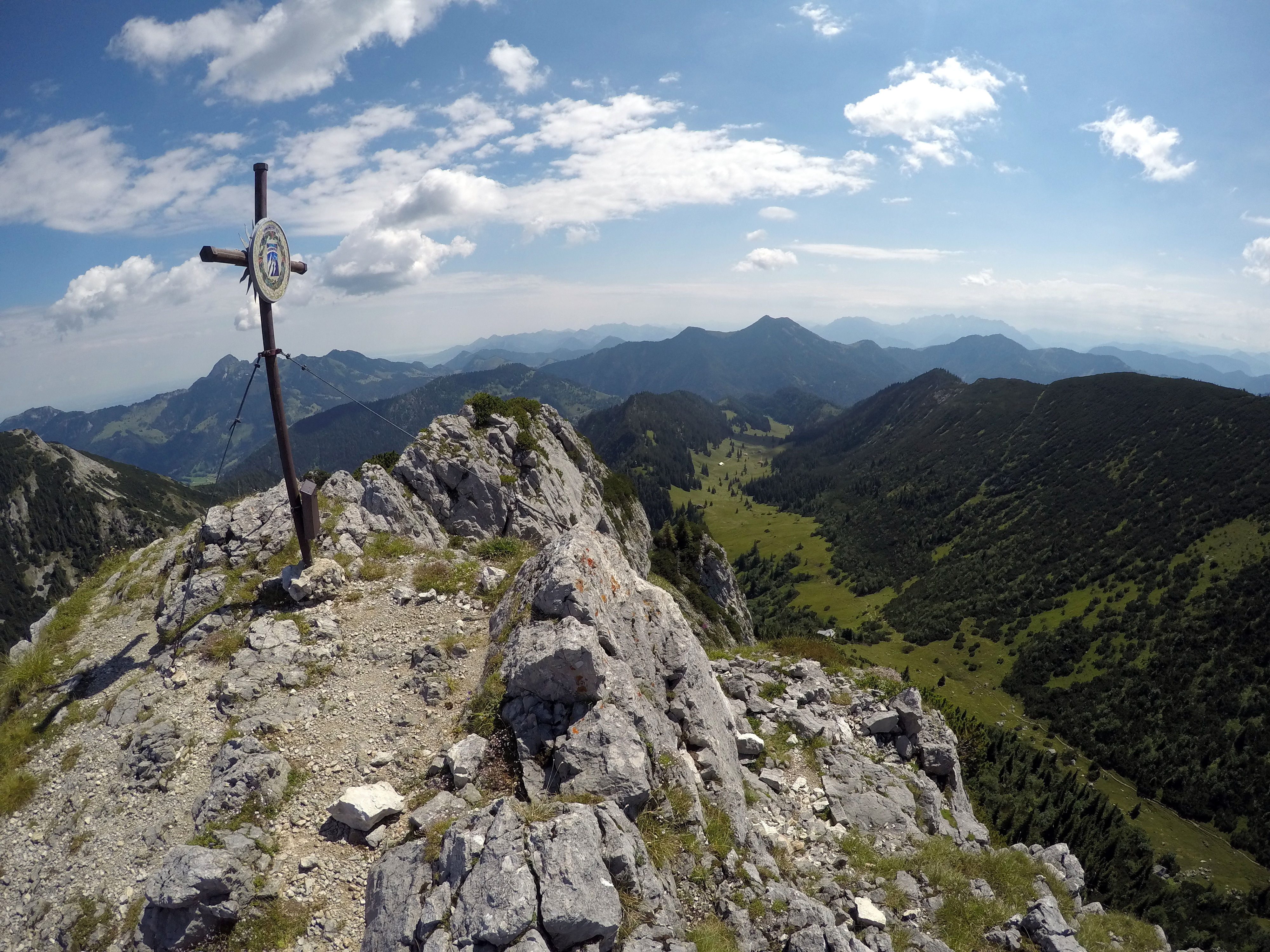 Ruchenköpfe, summit cross, Soinalm to the right